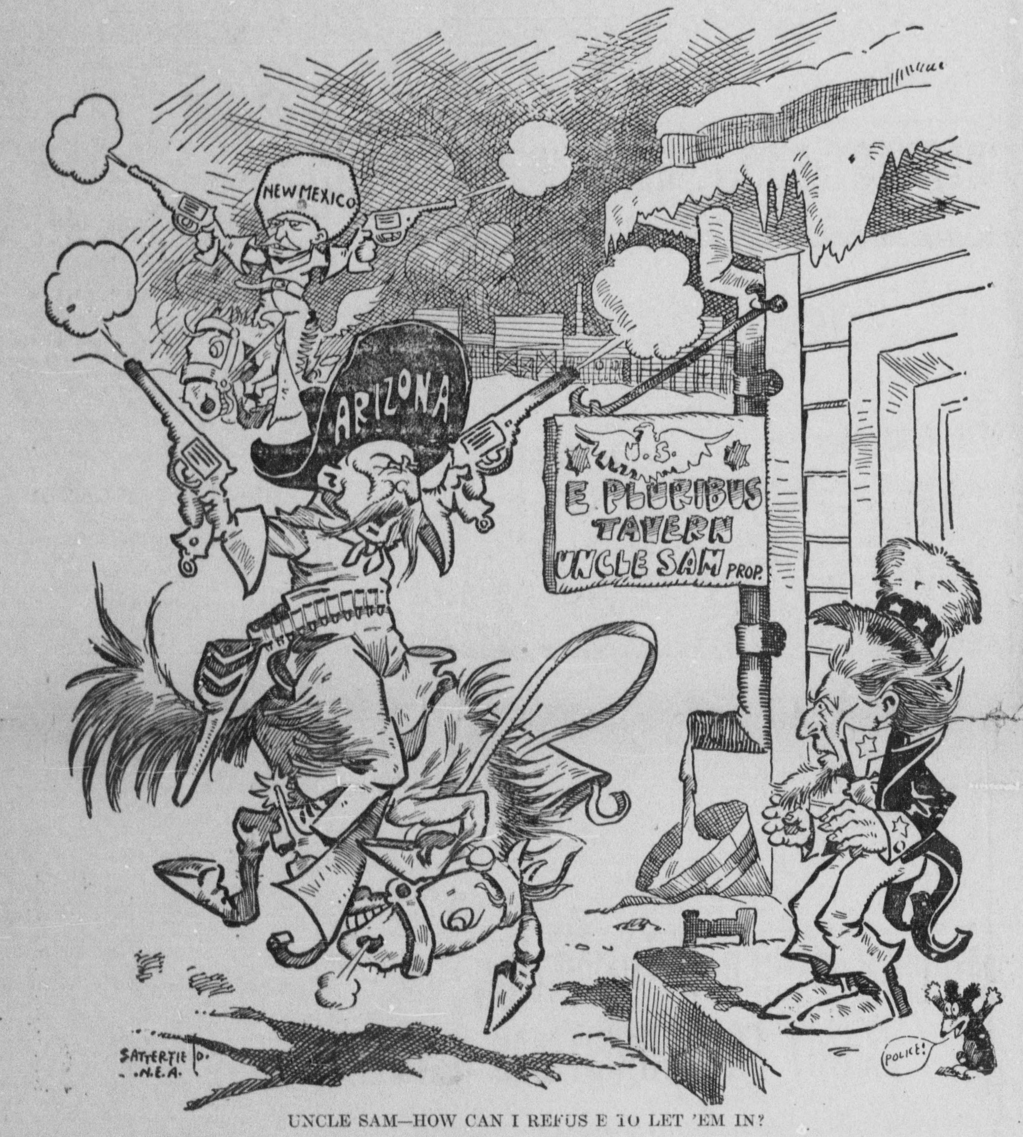 Arizona and New Mexico, represented as boisterous cowboys, try to gain access to the E Pluribus tavern.